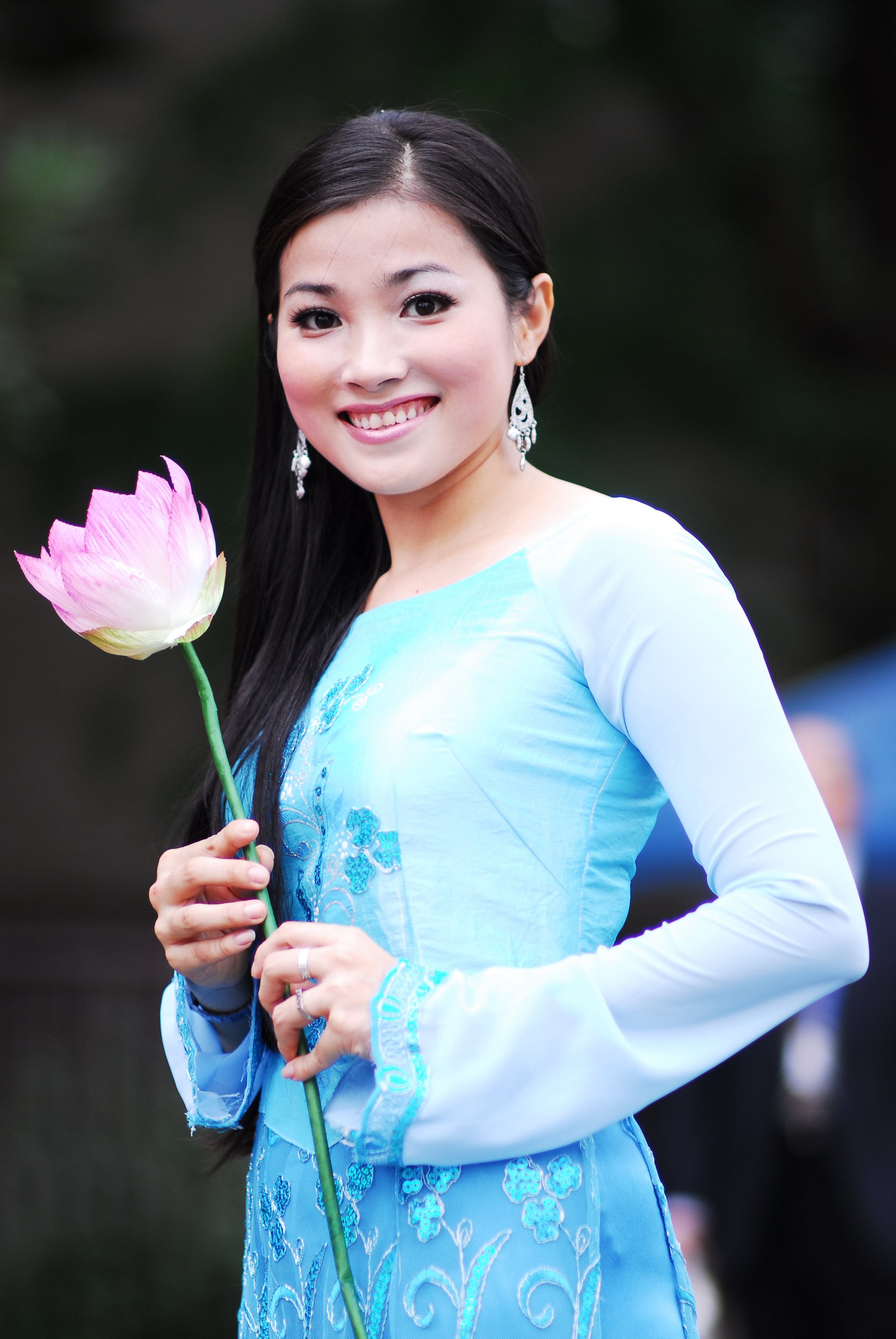 A Vietnamese young lady in Áo dài